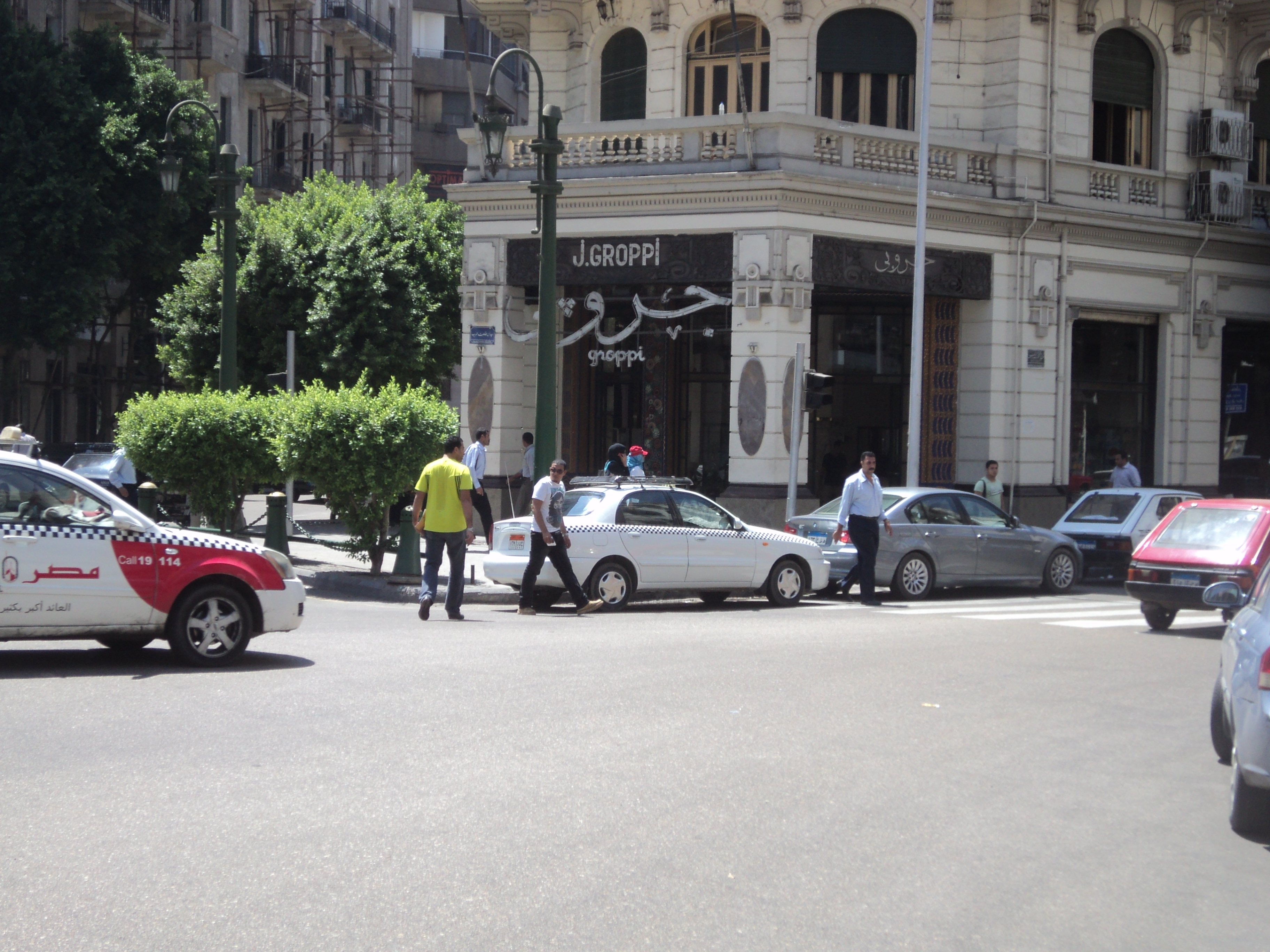 J.Groppi - chocolatier and café in Talaat Harb Square, Talaat Harb Street, in Downtown Cairo, Egypt.